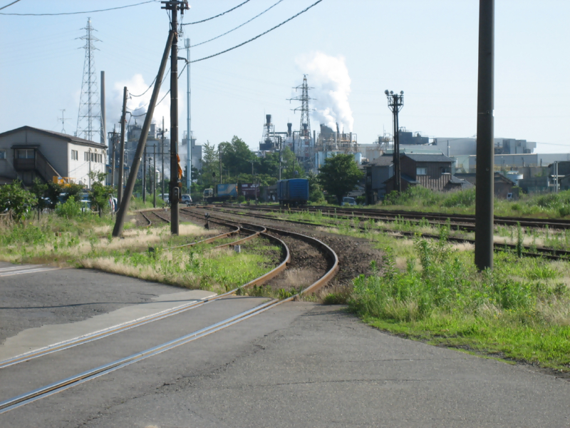 JR Freight Yakejima Station